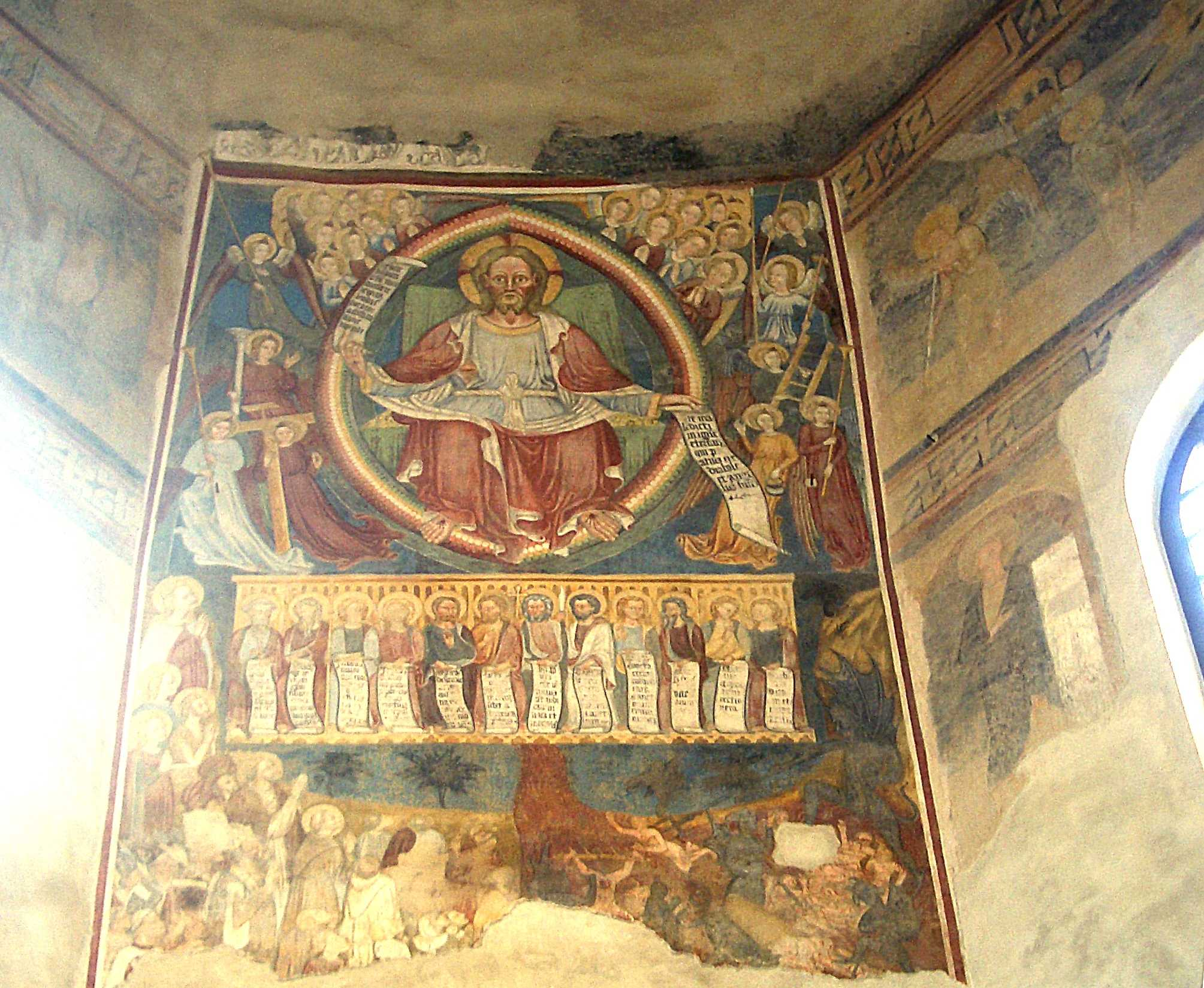 Johannes De Campo, Last Judgment, fresco, XV century, Baptistery, Novara